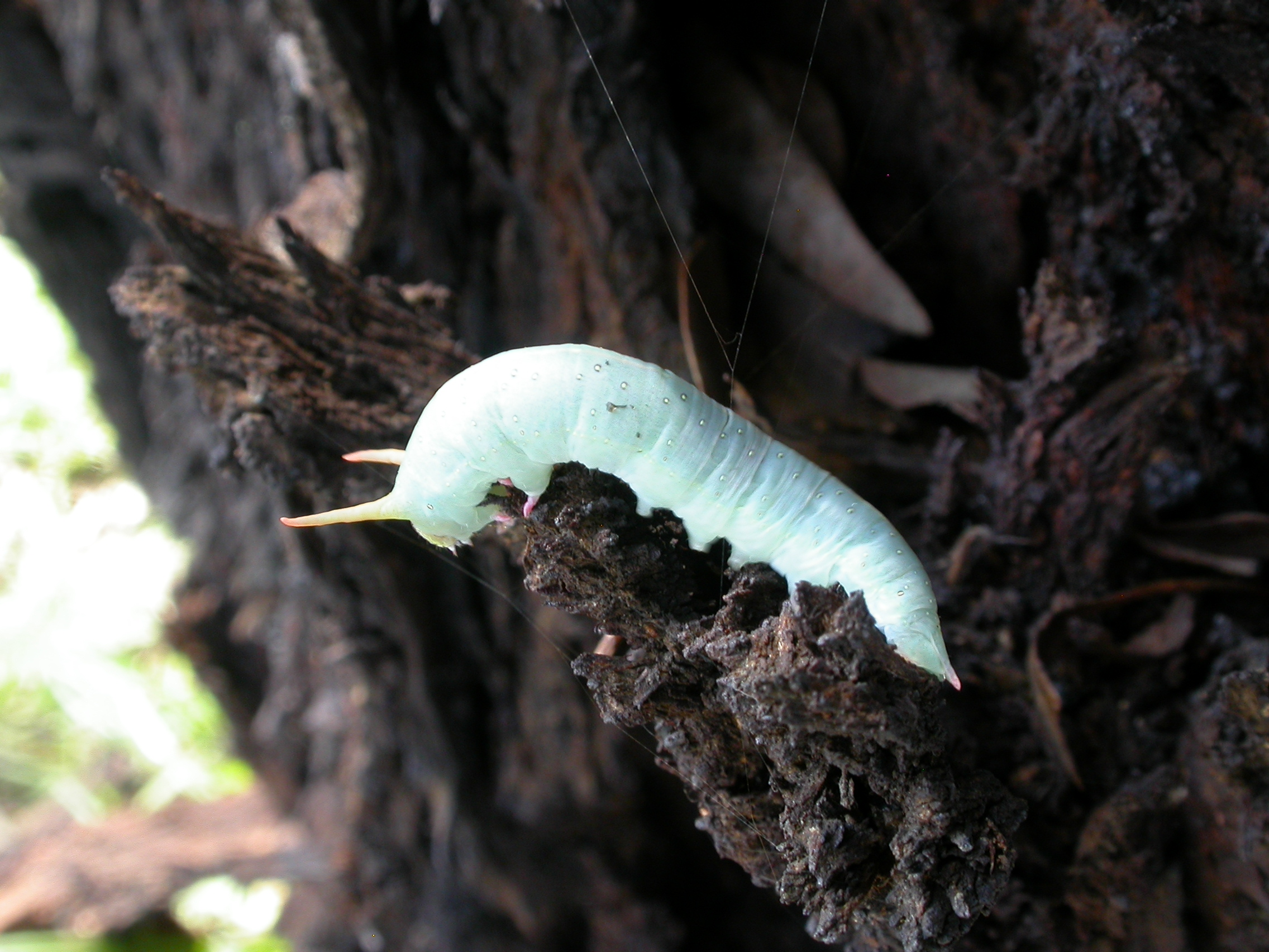 Fisera eribola(Guest, 1887), larva, Black Mountain, Canberra, ACT, 18 October 2010 Identification based on McFarland, Portraits of South Australian Geometrid Moths (pp. 95-98), although "horns" apparently longer on this individual and McFarland only recorded larvae from April to July at Blackwood, SA.